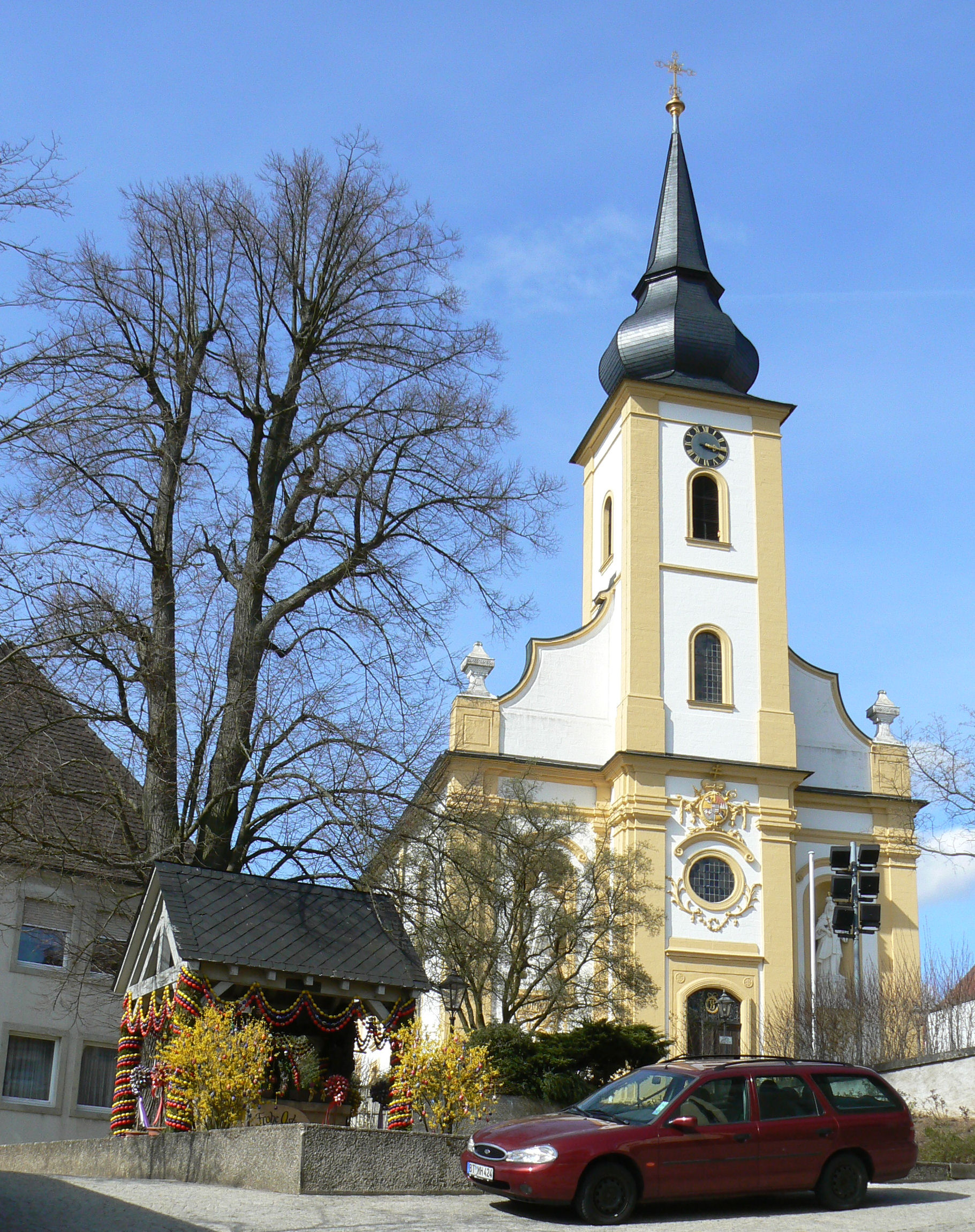 church in Hollfeld, Germany